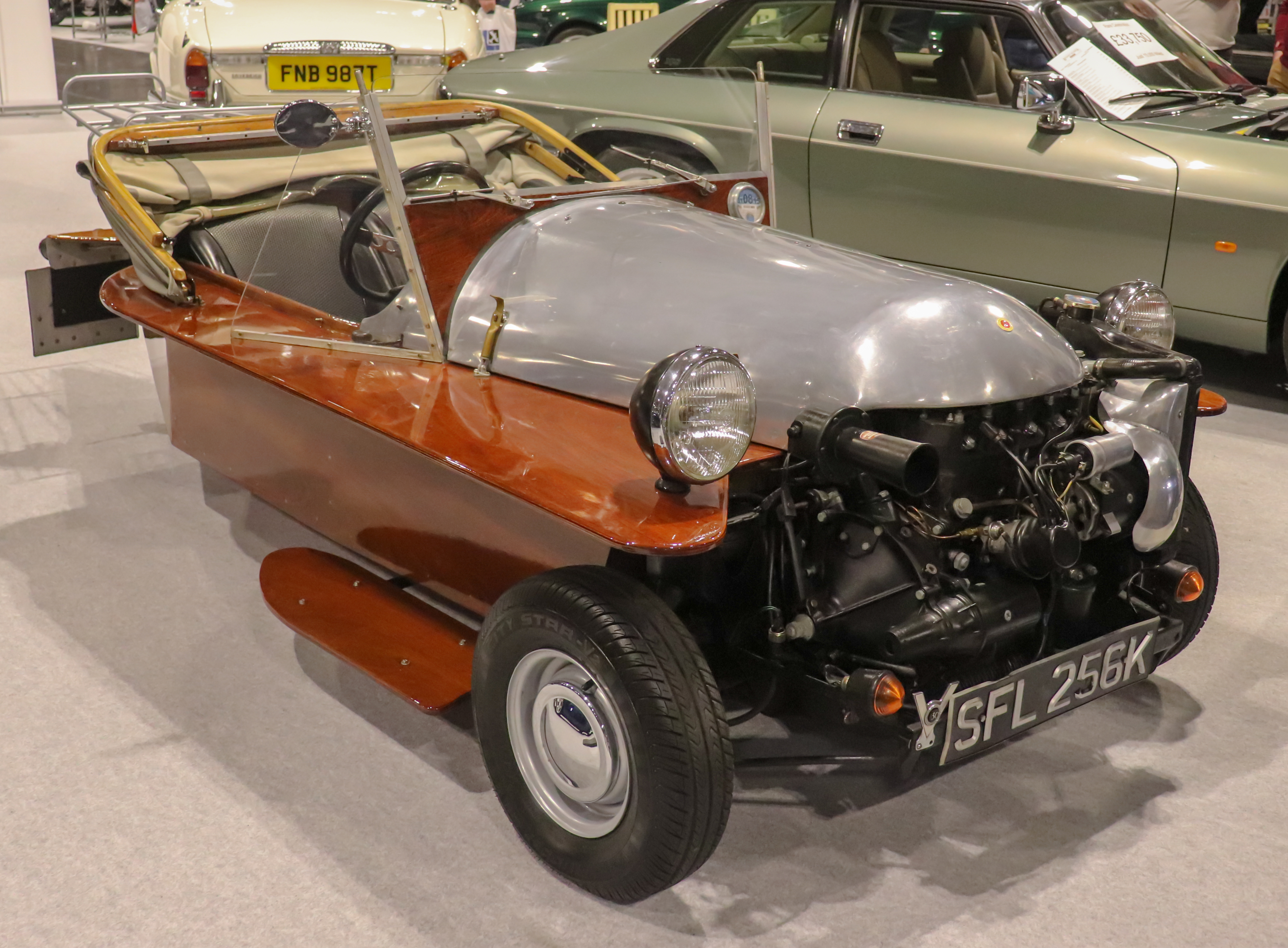 1971 A.F Spider 1.3 Front Taken at the NEC Classic Motor Show 2018